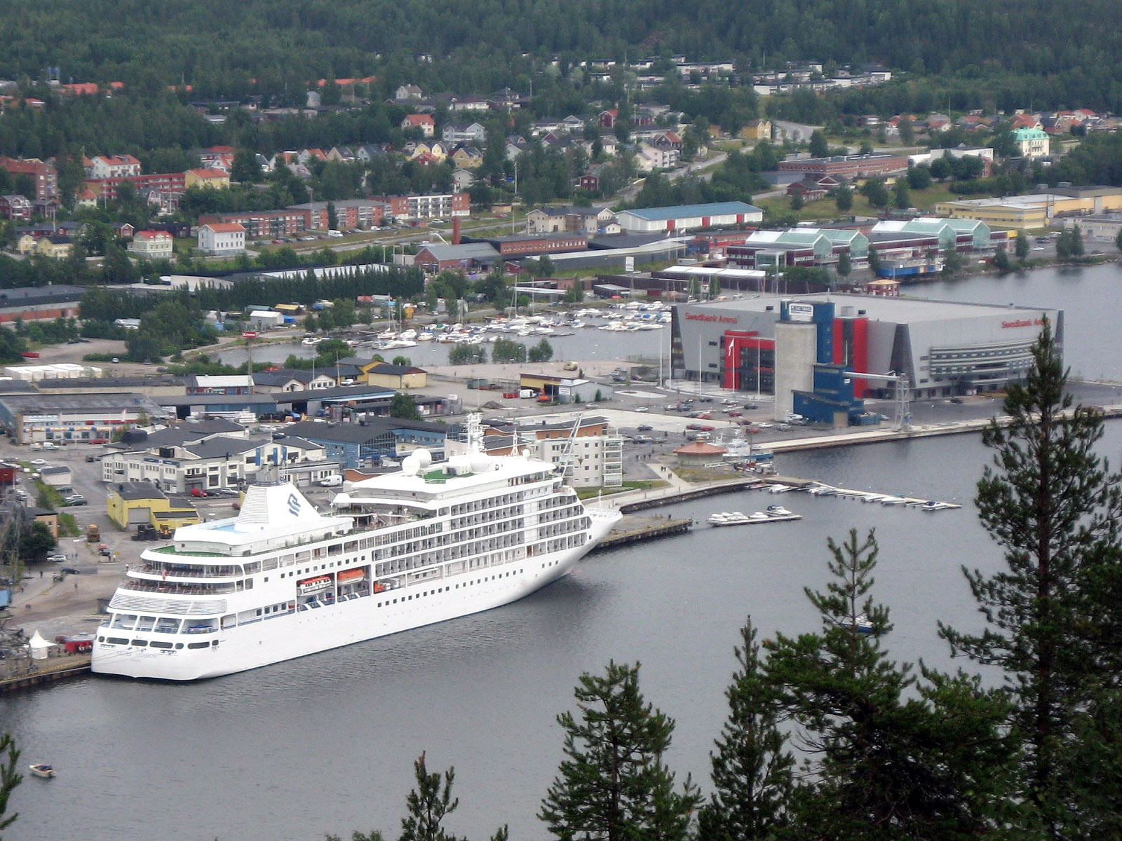 M/S Silver Shadow in Örnsköldsvik, Sweden, on July 10, 2007